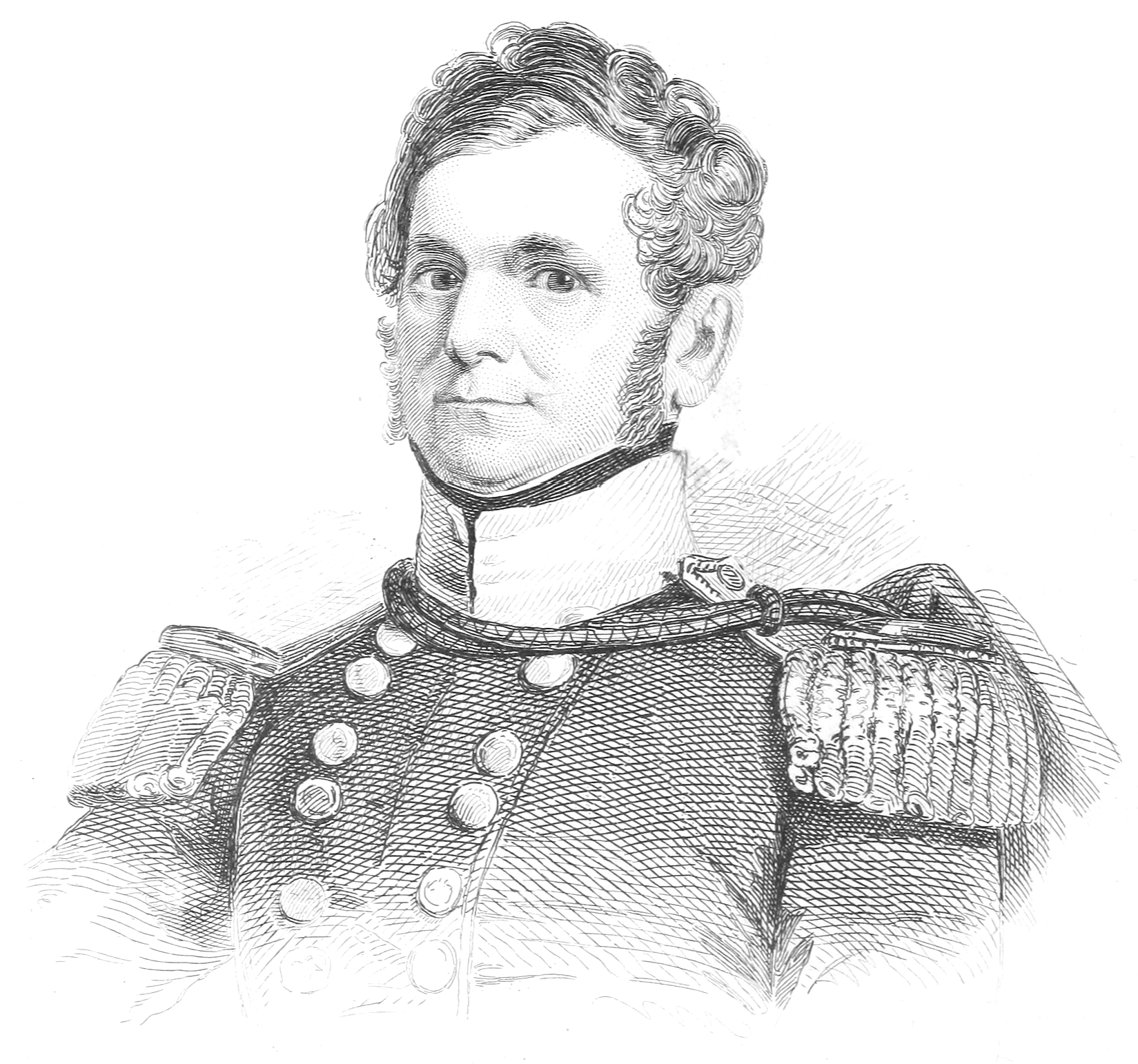 General William J. Worth in an 1848 engraving